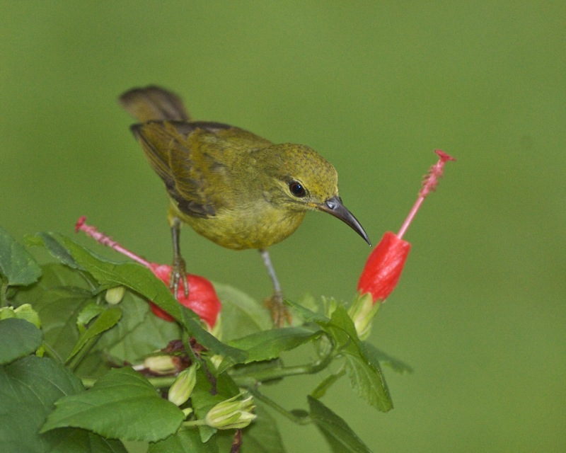 Crimson Sunbird - female Aethopyga siparaja ssp Aethopyga siparaja siparaja Location : Residential Garden, Merryn Road, Singapore 28th. November 2007 Took some time deciding if this is an olive backed but the lack of white on the tail swayed me toward crimson compare with Cinnyris jugularis Male here: Malay: Kelicap Sepah Raja Indonesian: Burung madu merah jingga, Burung-madu sepah-raja Thai: นกกินปลีคอแดง